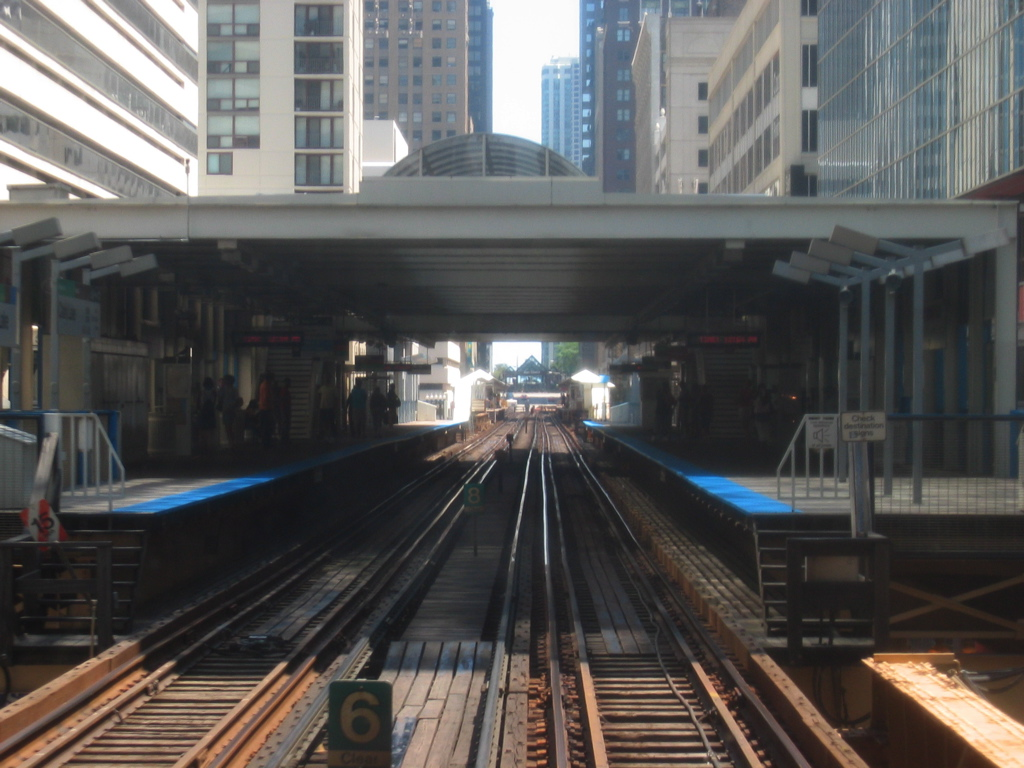 The elevated platforms at Clark/Lake station on the CTA Loop line